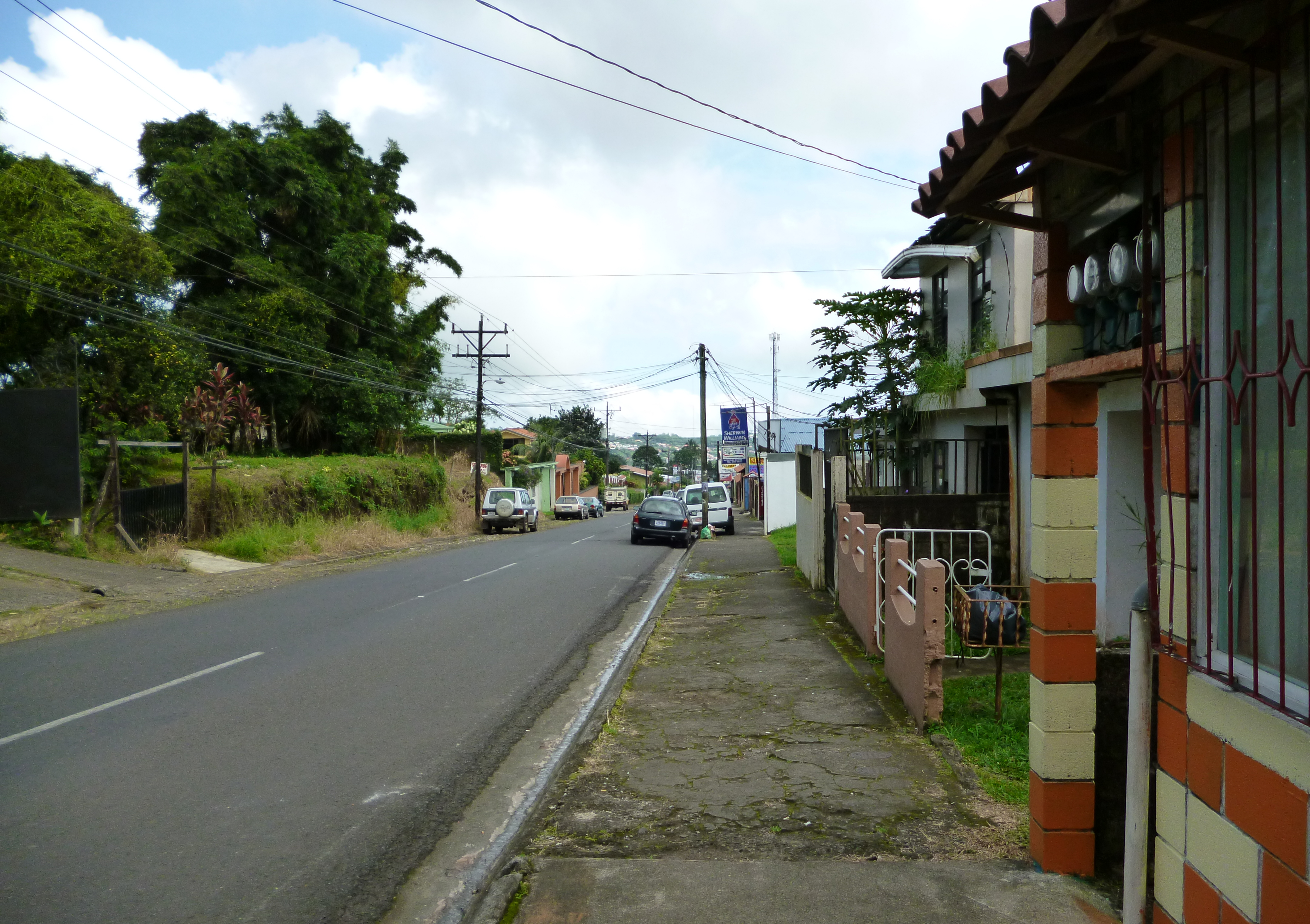 San Antonio, Ciudad Quesada, Costa Rica.